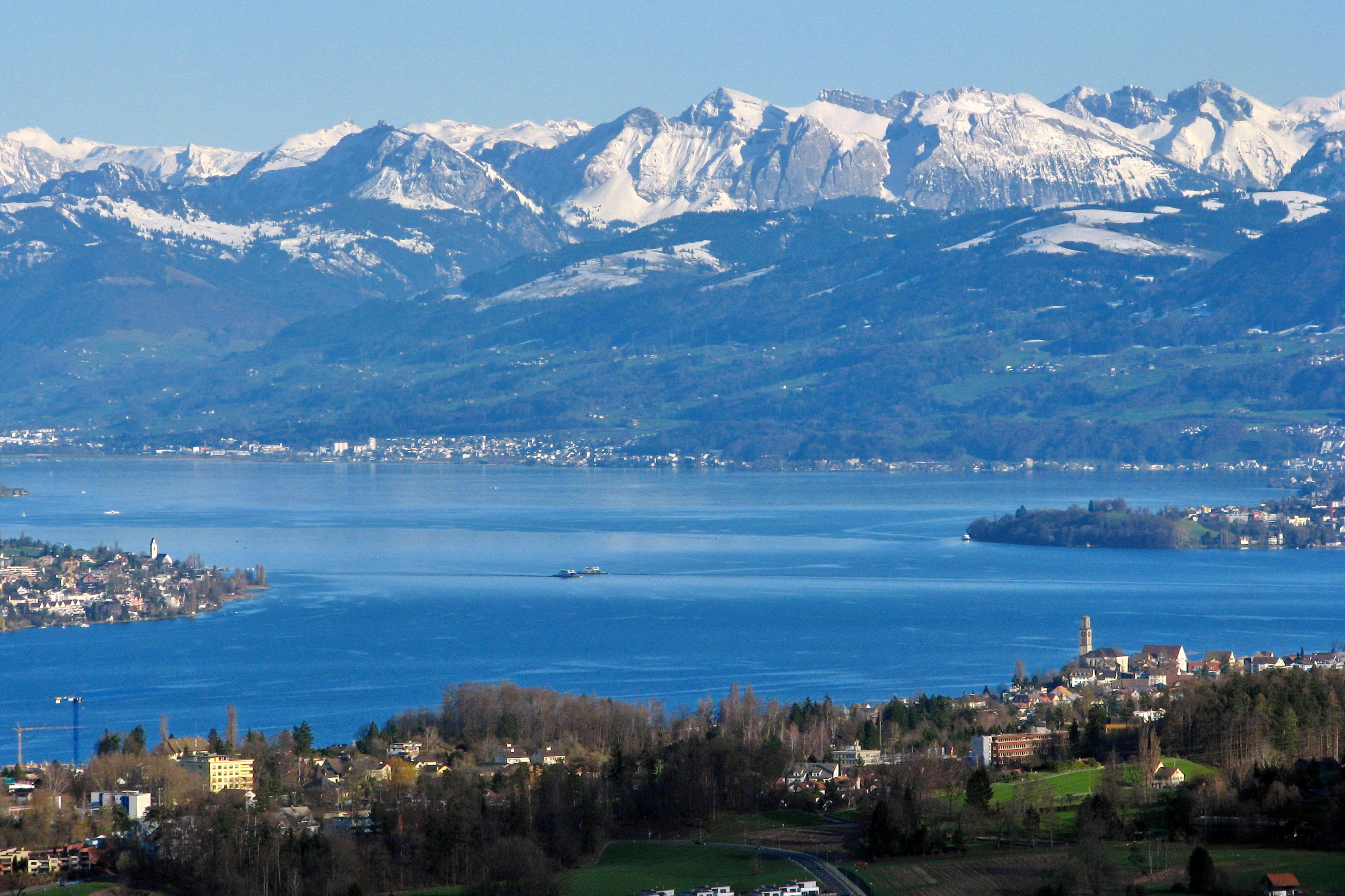 Zürichsee, the village Au, Au peninsula and Zimmerberg region, as seen from Felsenegg, Thalwil in the foreground, Freienbach in the background (to the left).